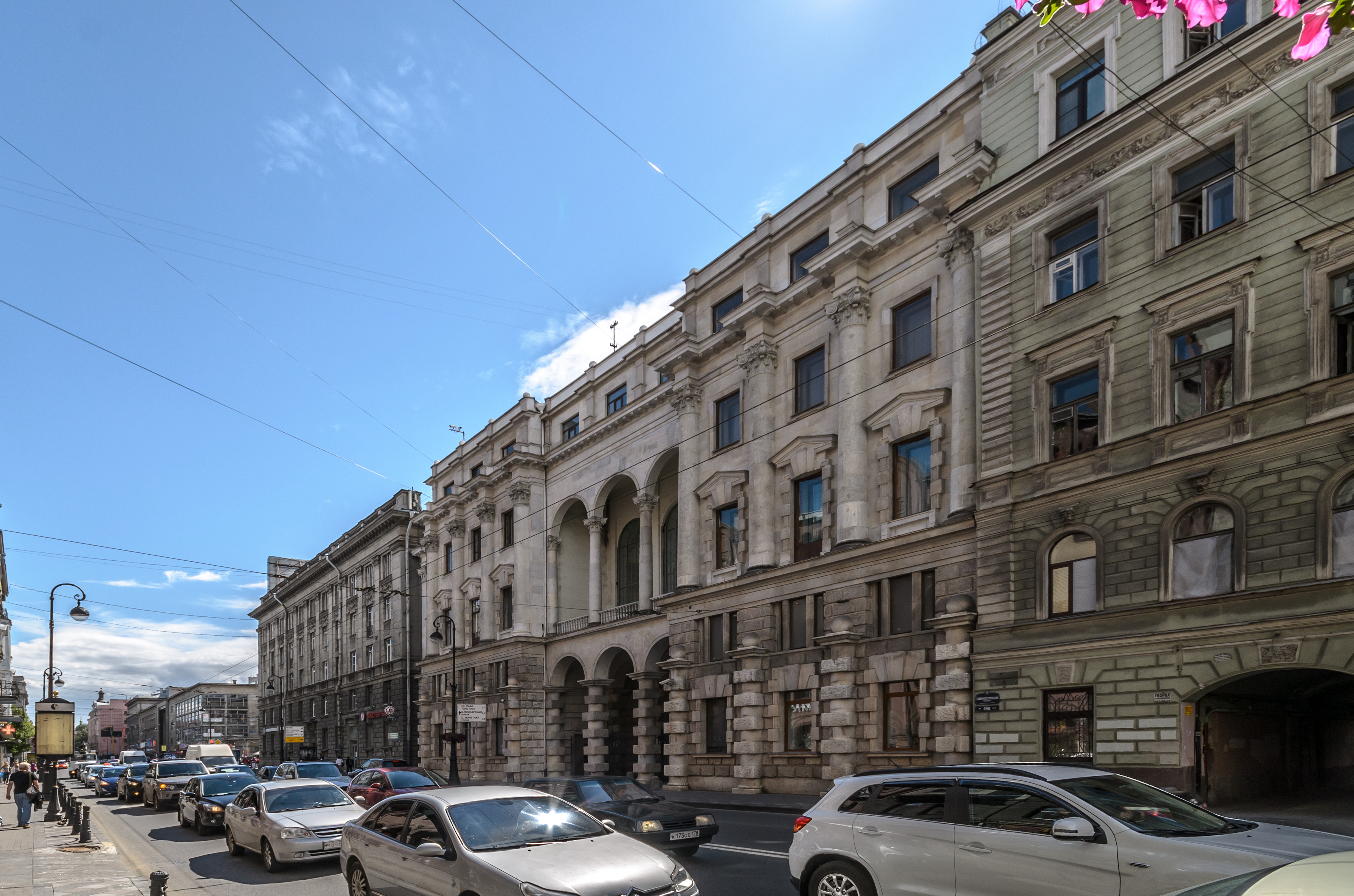 Kamennoostrovsky Avenue in Saint Petersburg. Emir of Bukhara house.